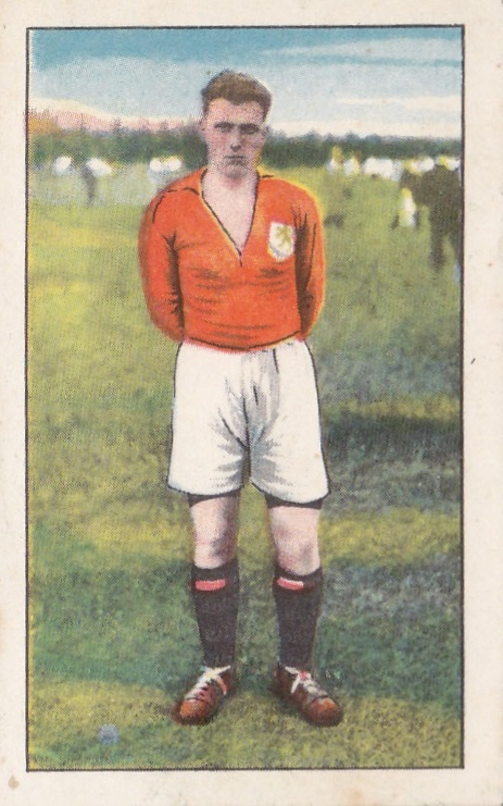 Dutch football player Mauk Weber (ADO, 1931)